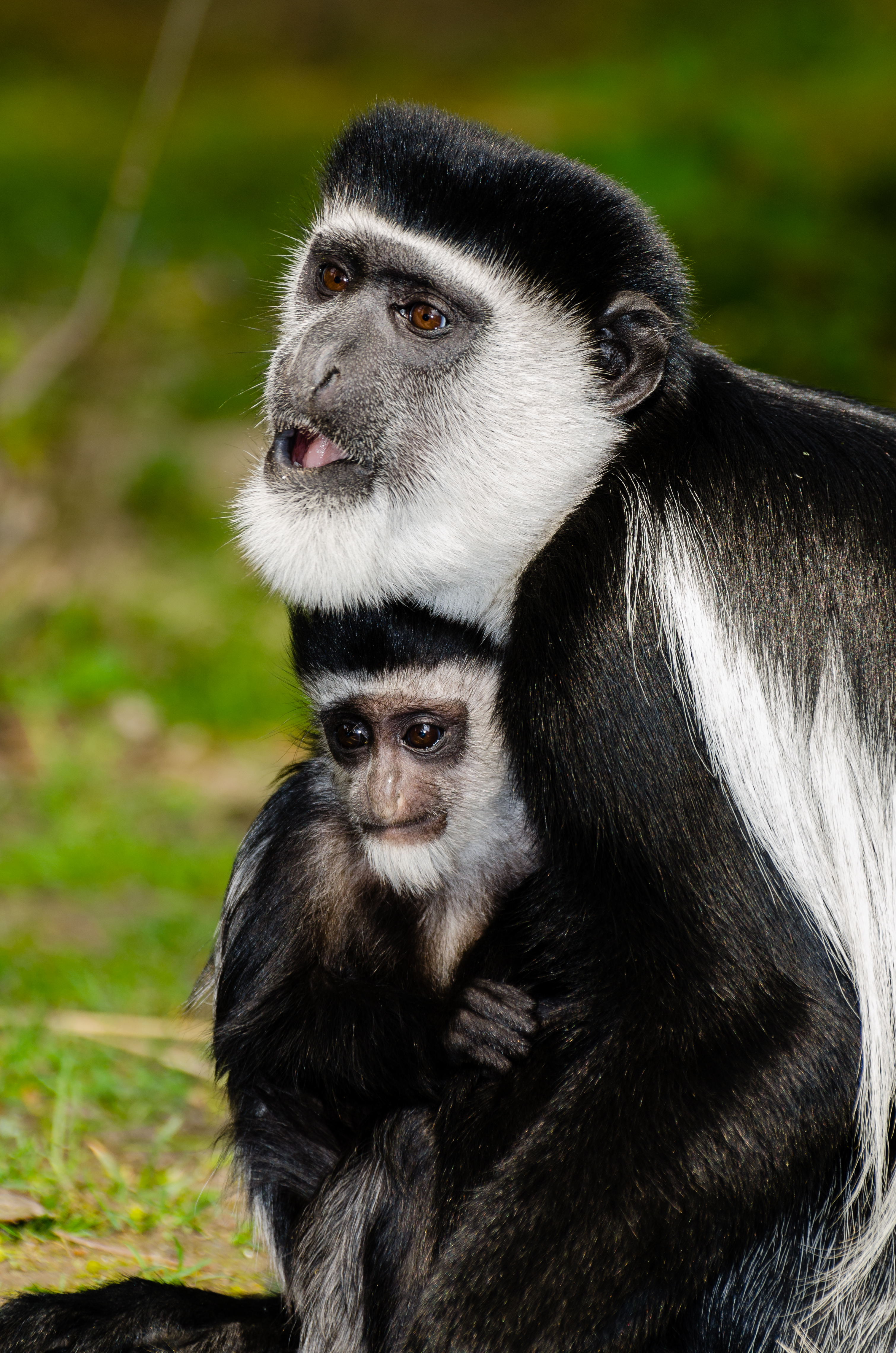 Black-and-white colobus (Colobus guereza) with baby photographed at Münster Zoo